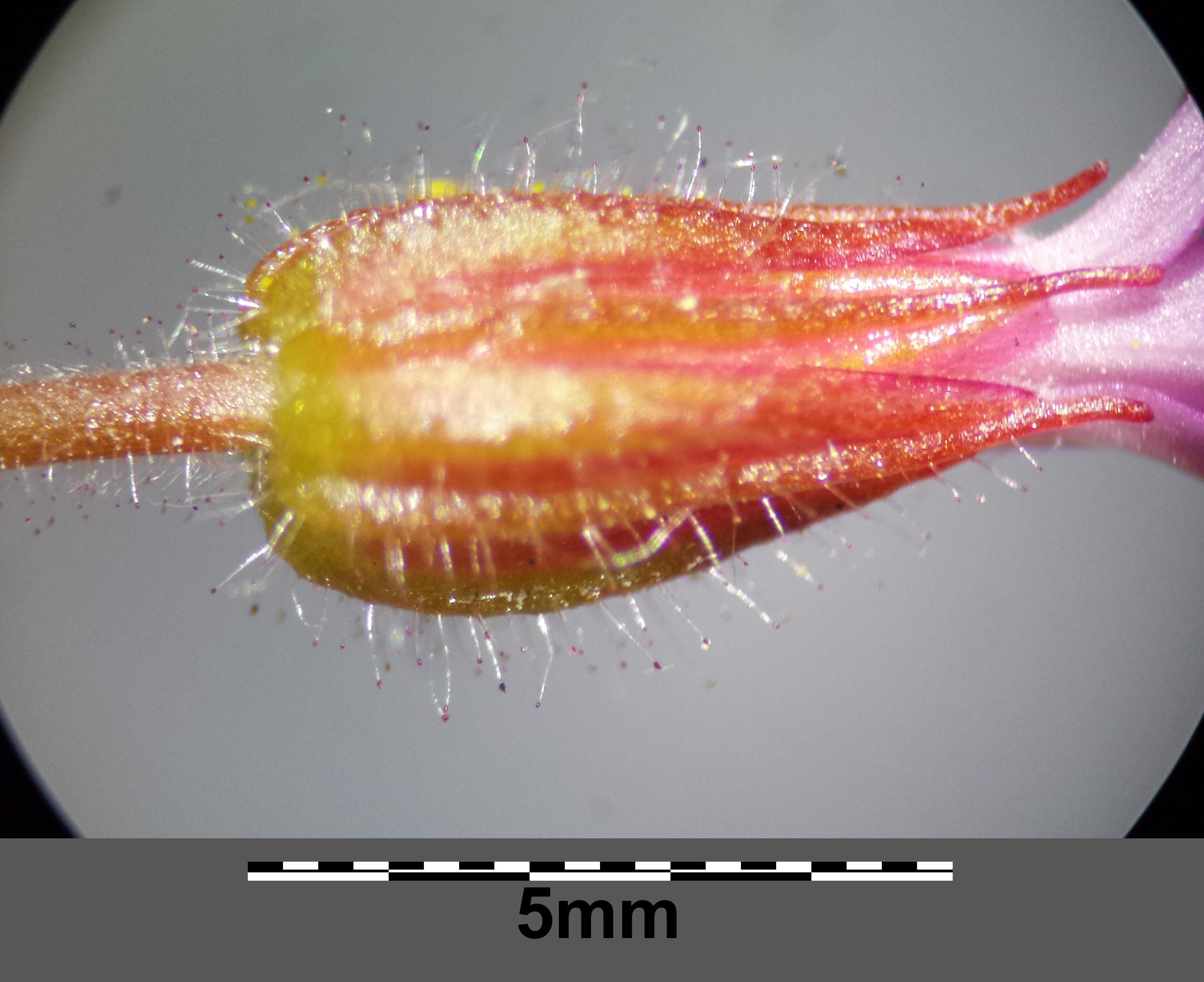 Hairy calyx Taxonym: Geranium purpureum ss Fischer et al. EfÖLS 2008 ISBN 978-3-85474-187-9 Location: Jedlersdorf rail station, Vienna-Floridsdorf - ca. 160 m a.s.l. Habitat: ballast